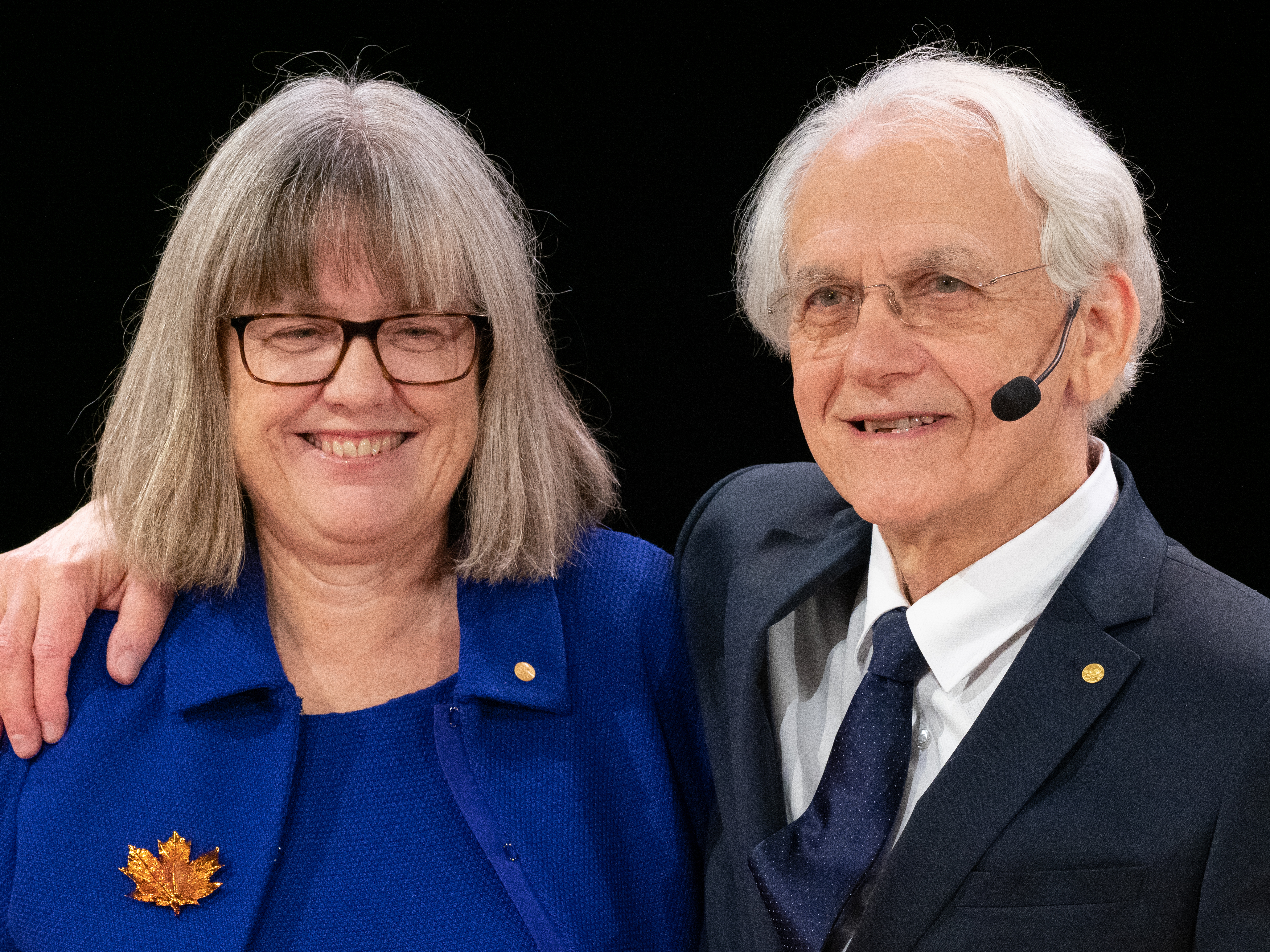 Nobel Laureates in Physics 2018, Stockholm, Sweden, December 2018